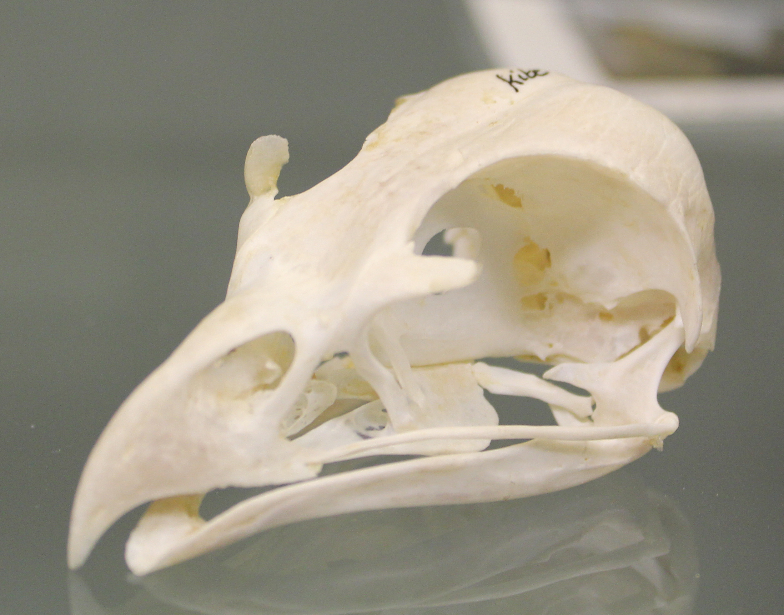 Red Kite (Milvus milvus) skull at the Royal Veterinary College anatomy museum